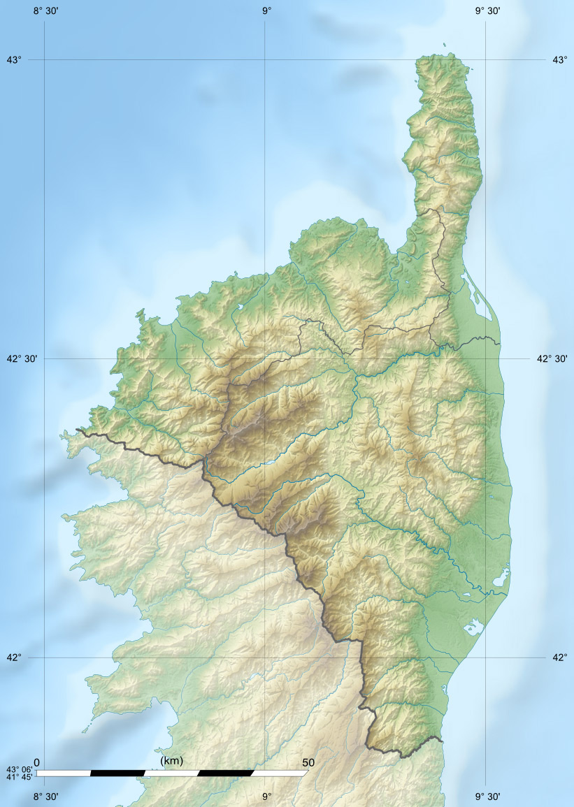 Blank physical map of the department of Haute-Corse, France, for geo-location purpose, with distinct boundaries for departments and arrondissements as they are since January 2010.The former version of the map shows the boundaries as they were until December 2009.